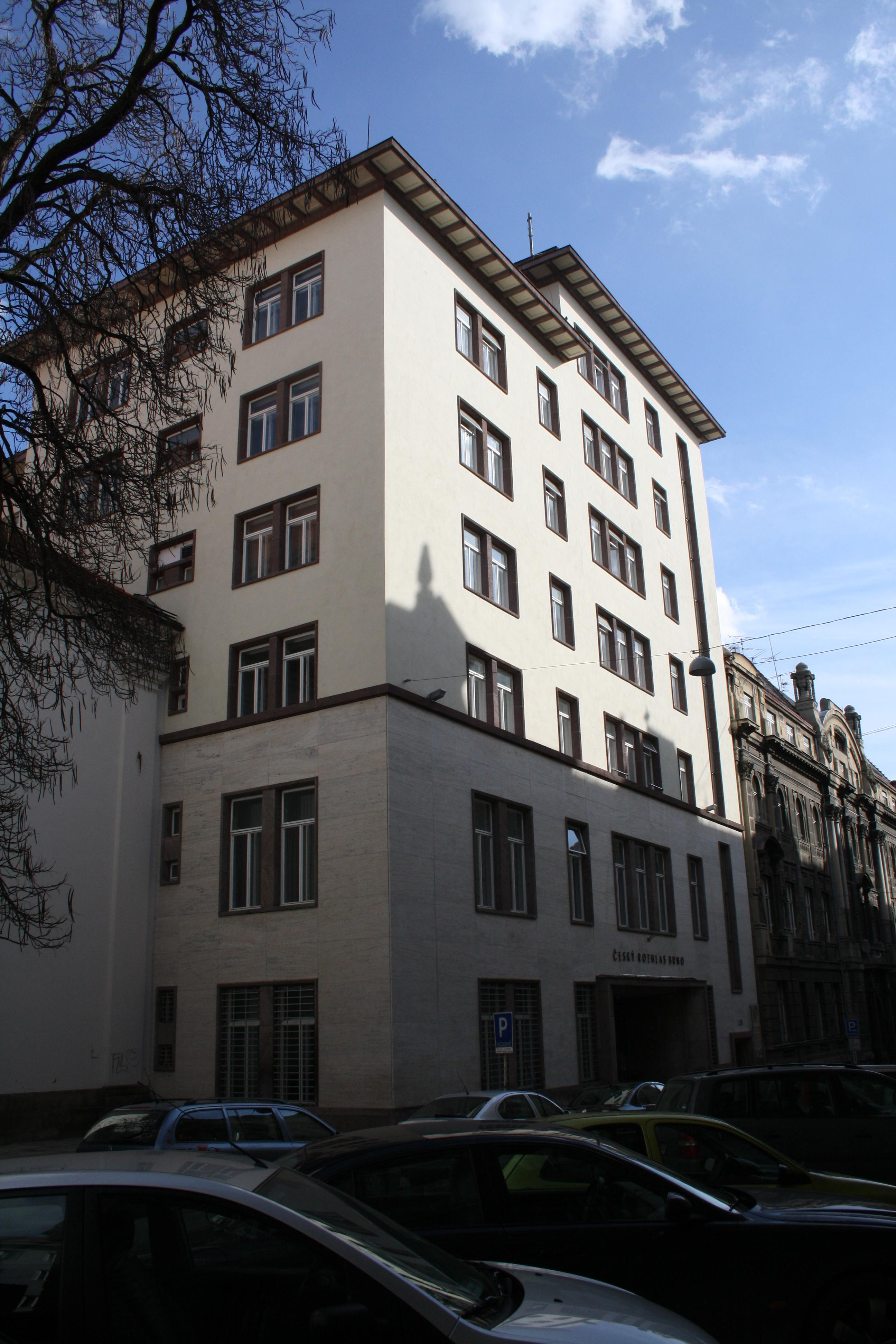 Building of Czech Radio in Brno-Center.